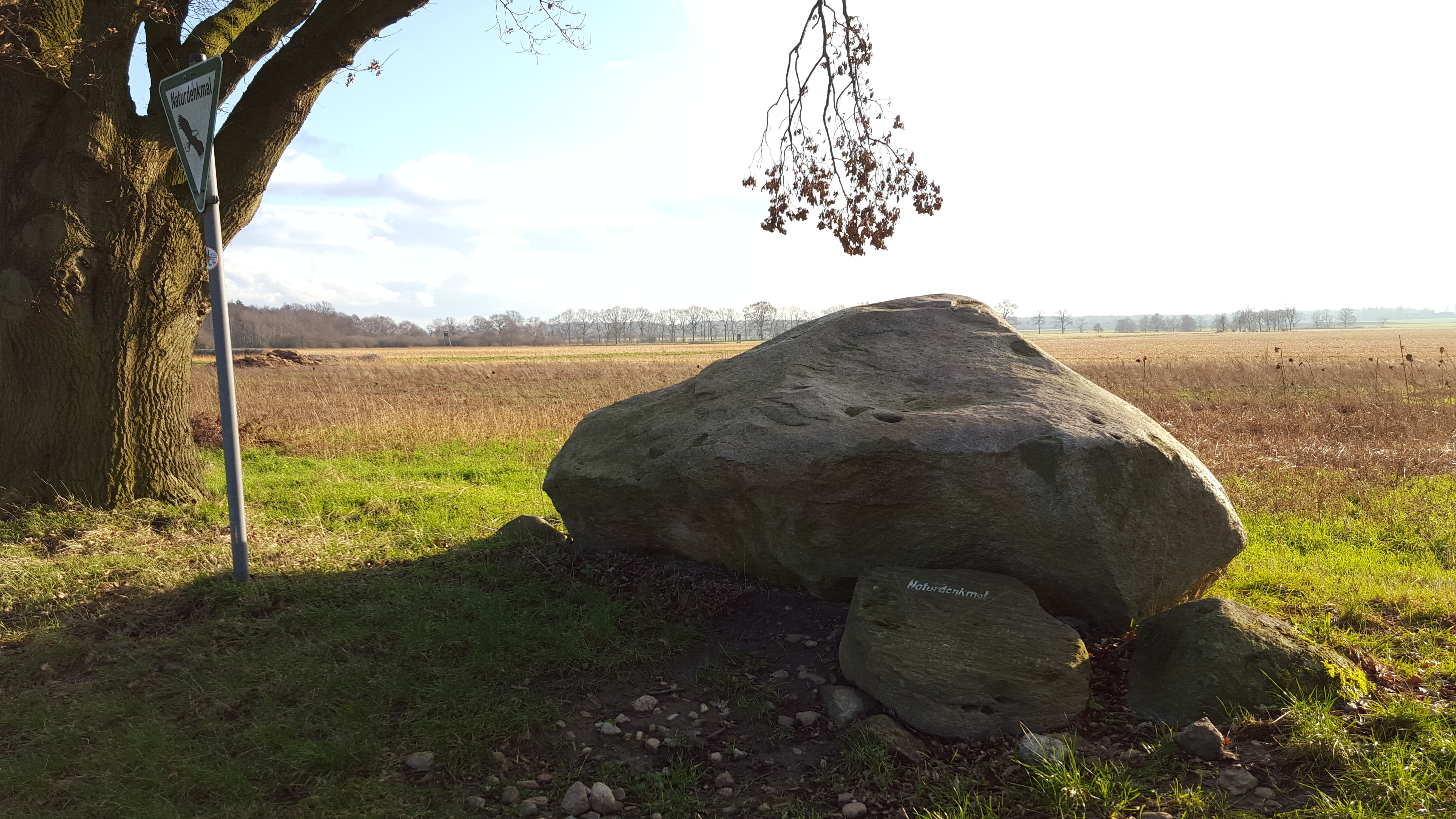 Protected glacial erratic "Schrölingsstein" north of Grafhorn (Lehrte, Region Hannover, Lower Saxony).